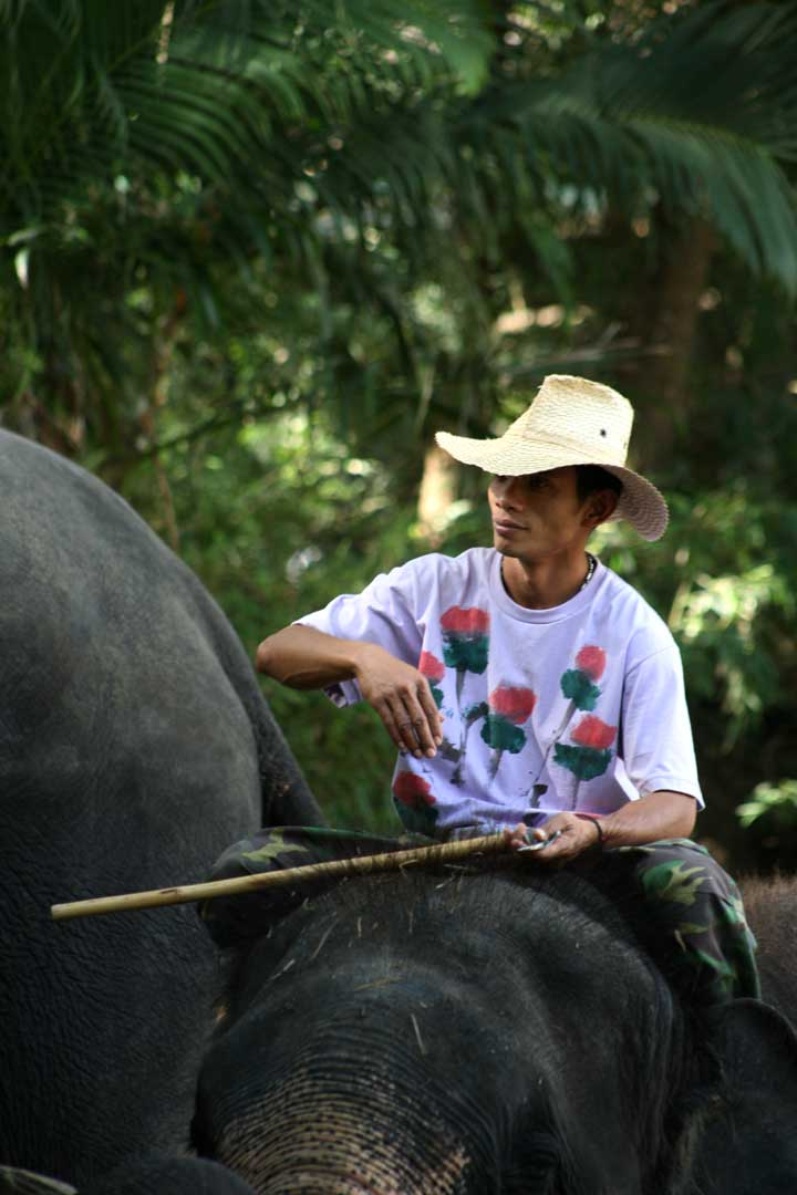 This man is a "mahout" or elephant keeper. A mahout and his charge are usually together for life. The word "mahout" comes from the ancient Sanskrit language.